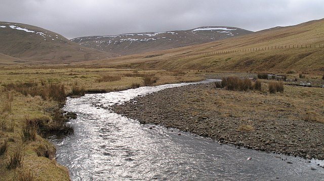 Fruid Water A braided stream in a high glen rather reminiscent of the eastern Highlands. View up the flat bottomed glen towards Hart Fell.